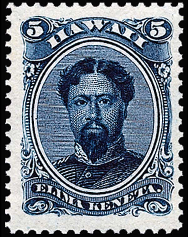 Stamp of Hawaii, 5¢, 1866, blue, King Kamehameha V, Scott 32.